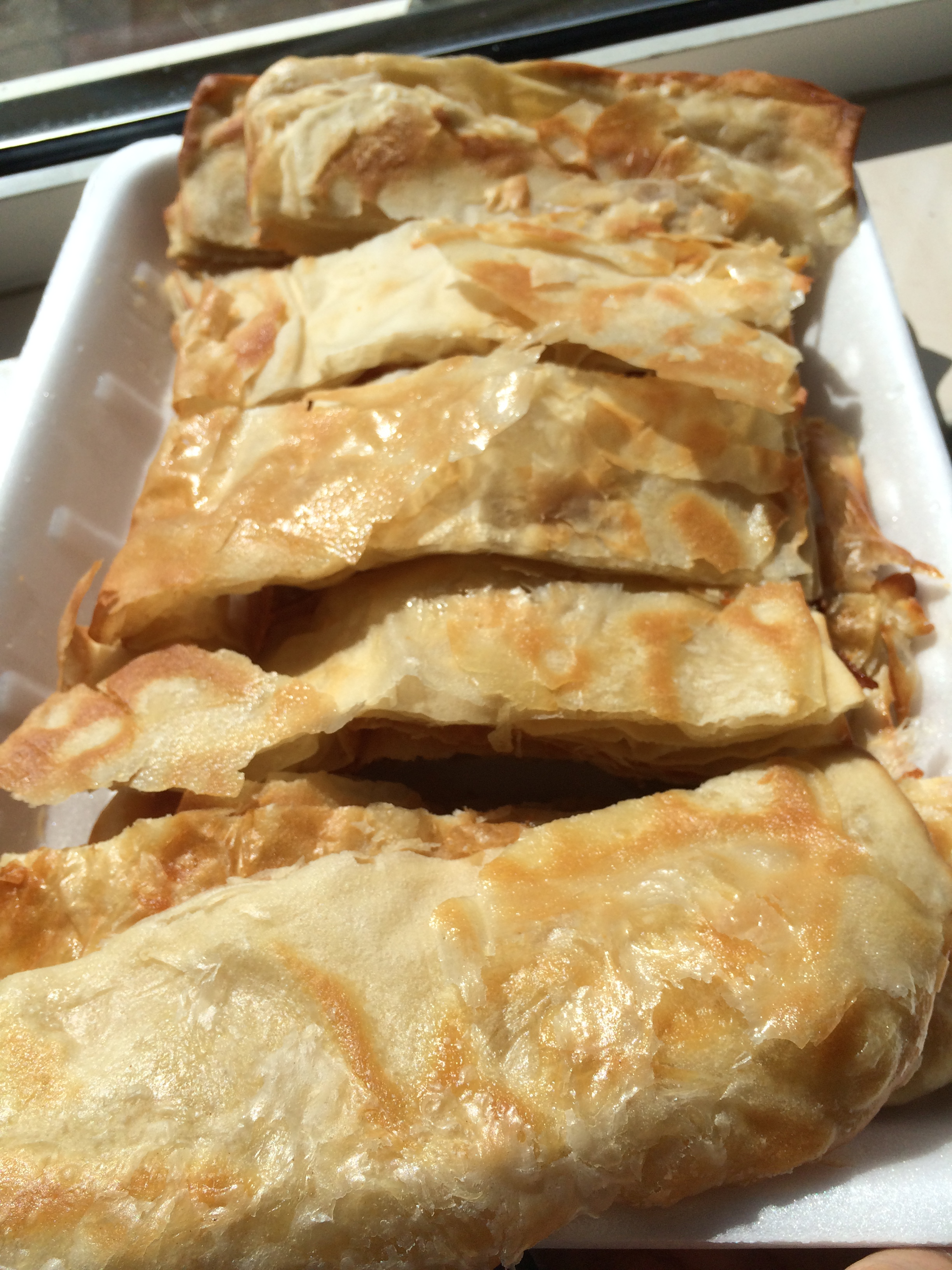 Iraqi Kahy/Kahi (pastry) served on breakfast. كاهي عراقي